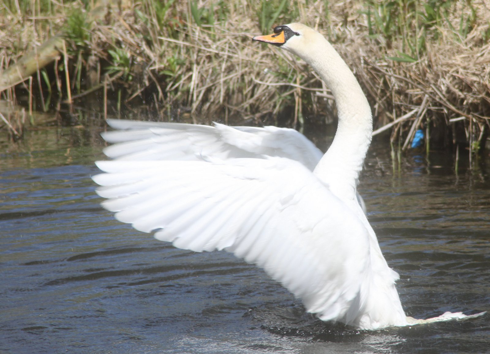 Big swan spread his wings in Holland